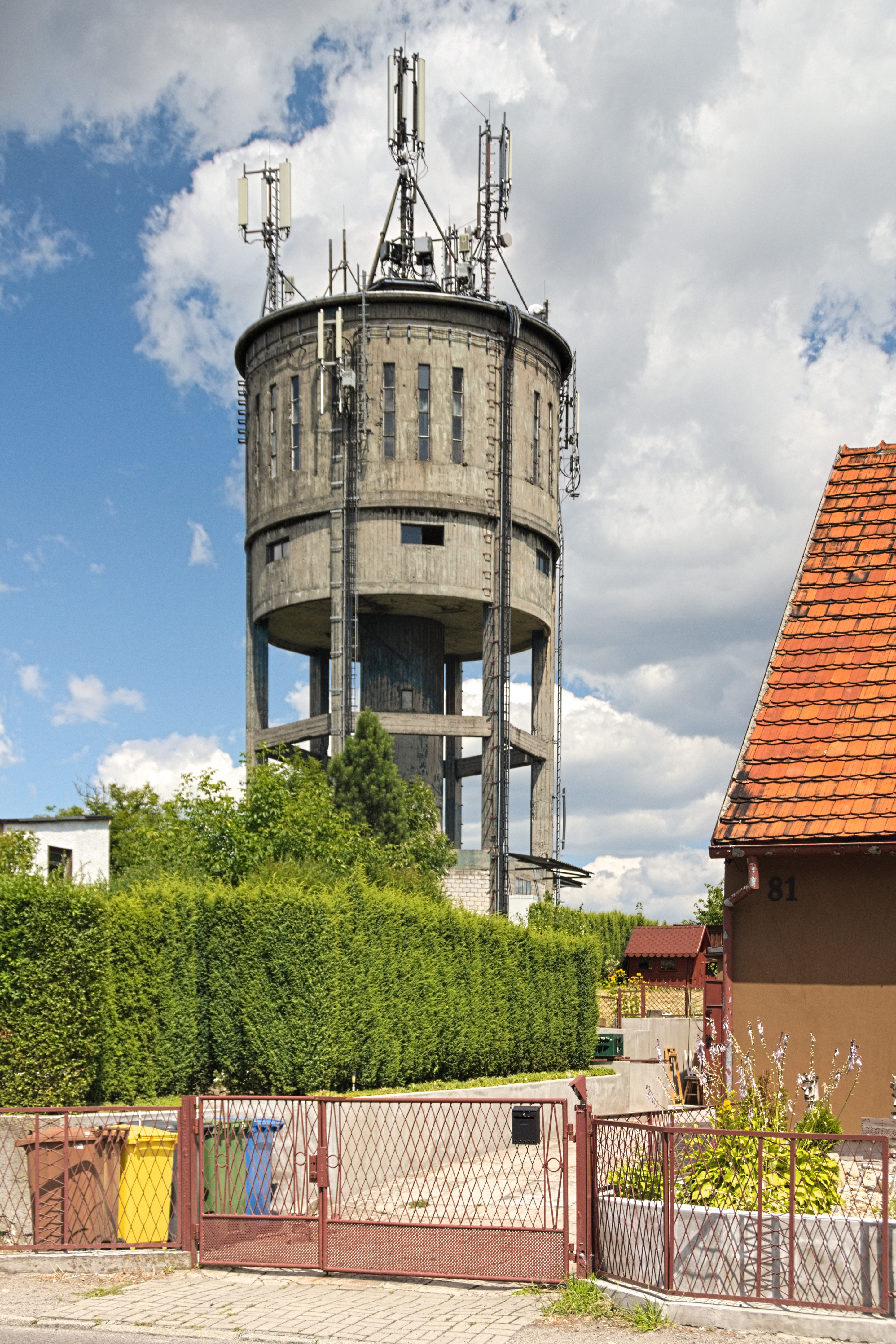 water tower from 1935 in Bytom-Stolarzowice, view from Witolda Gombrowicza Street